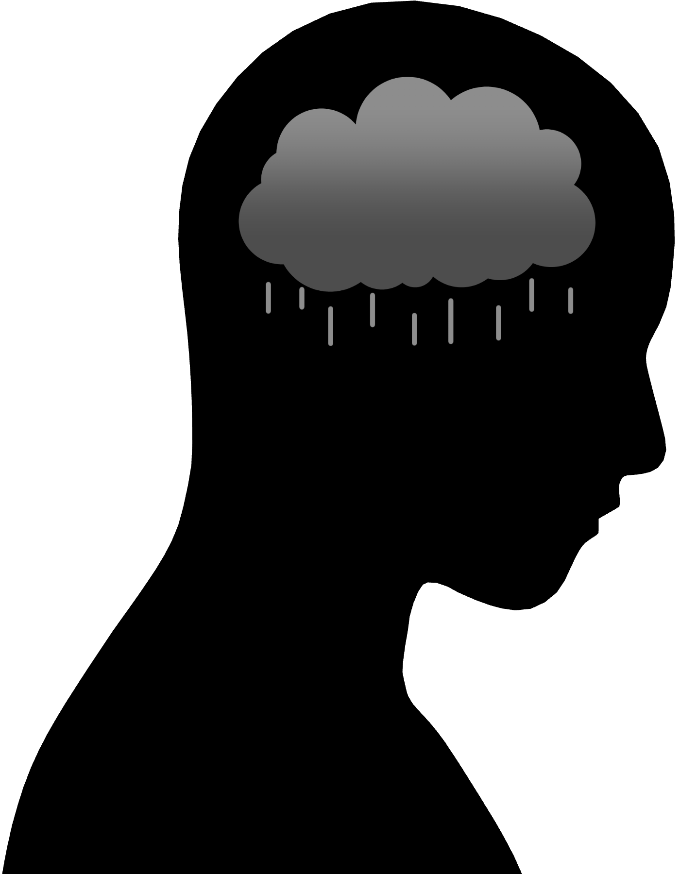 An icon depicting unhappiness associated with mental illness